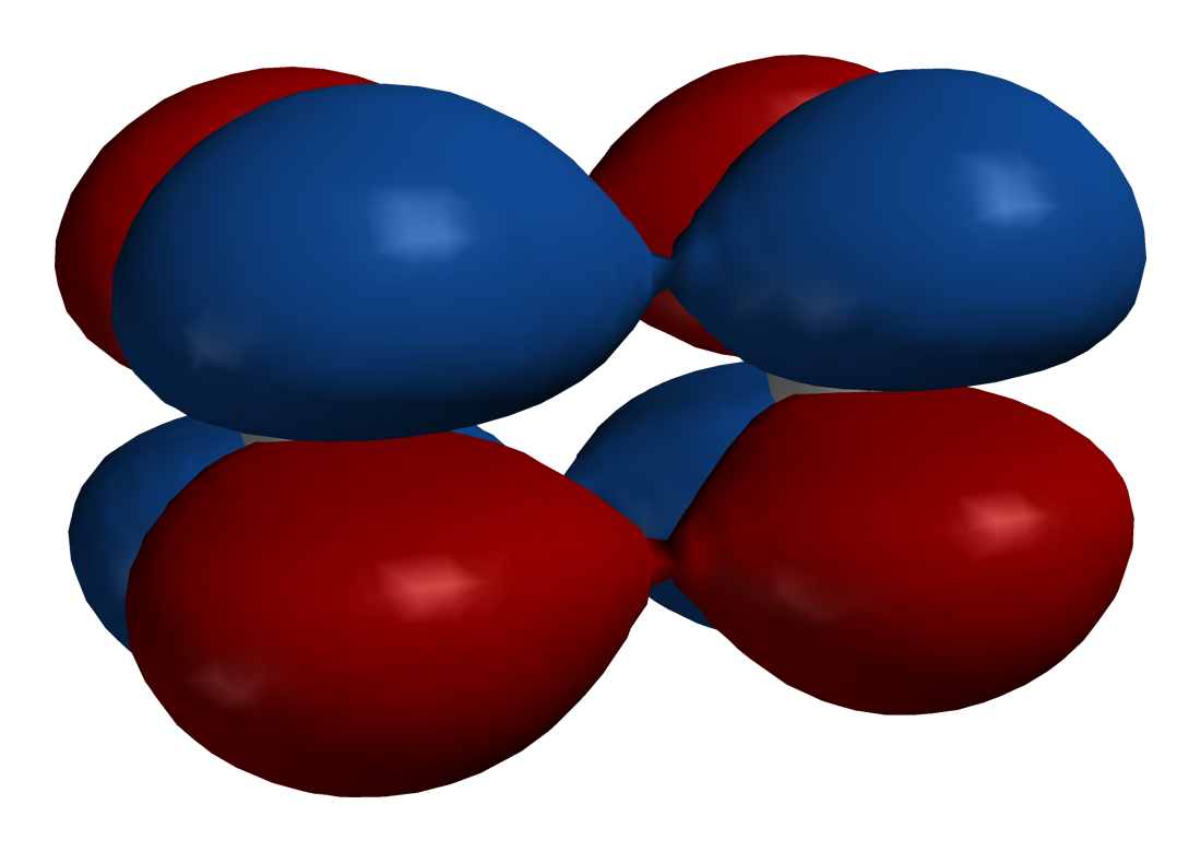 Space-filling model of a delta bond (bonding molecular orbital with δ symmetry)